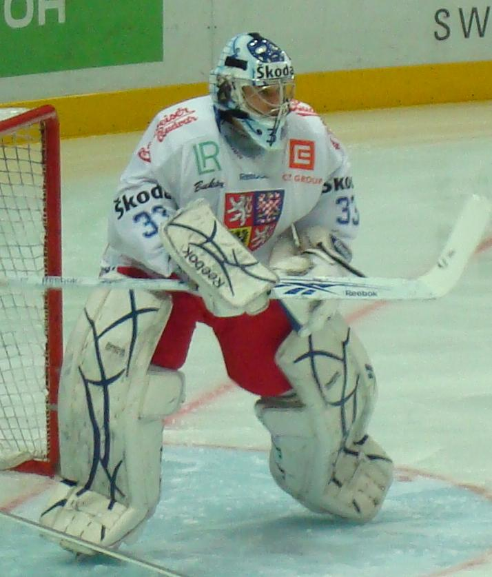 Jakub Stepanek at First Channel Cup 2010 in Moscow